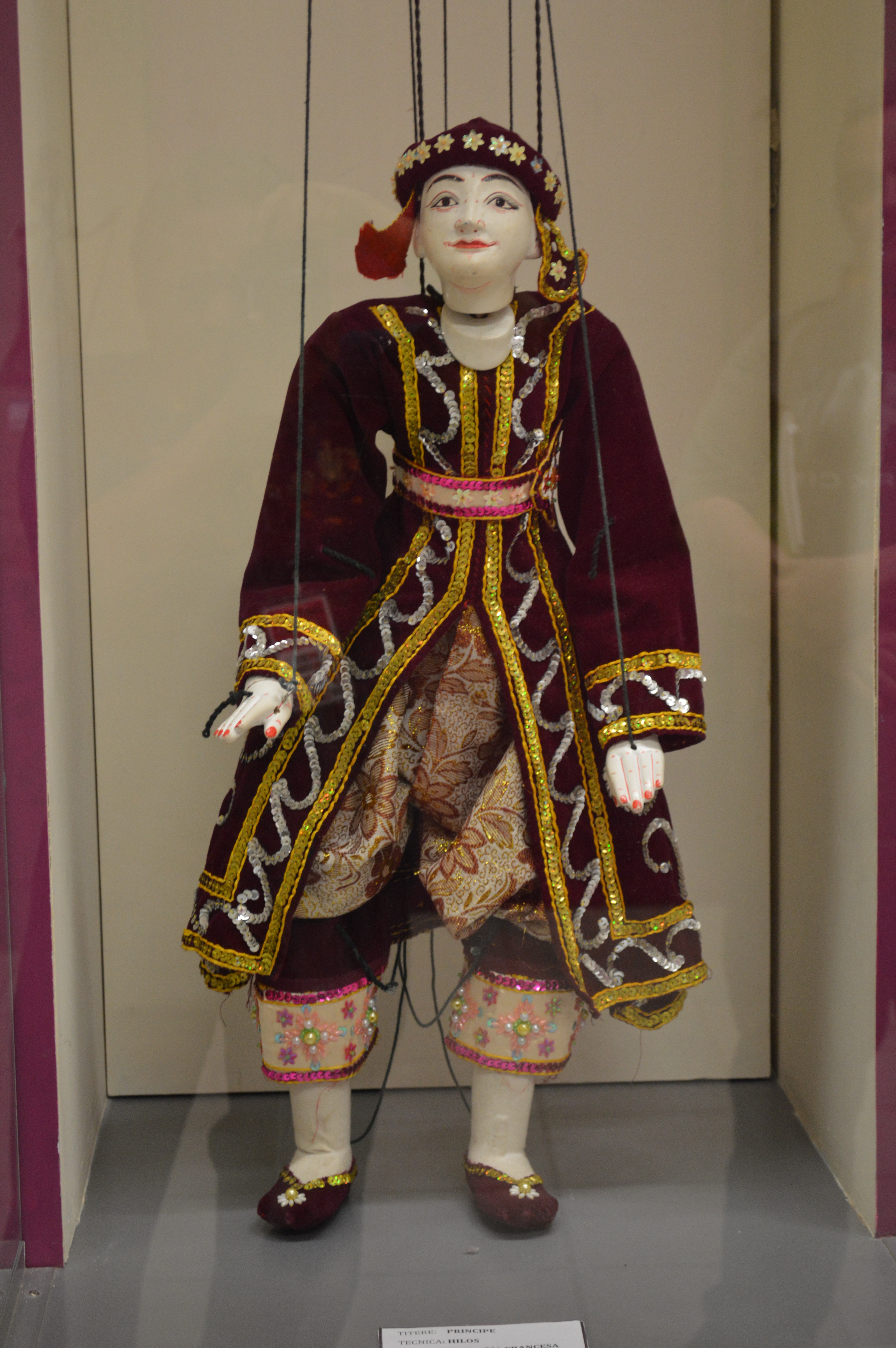 Prince puppet from Myanmar (unknown author) at the National Puppet Museum in Huamantla, Tlaxcala, Mexico